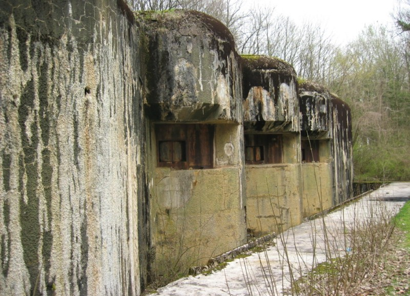 Maginot Line - Gros Ouvrage from Latiremont - Block 6